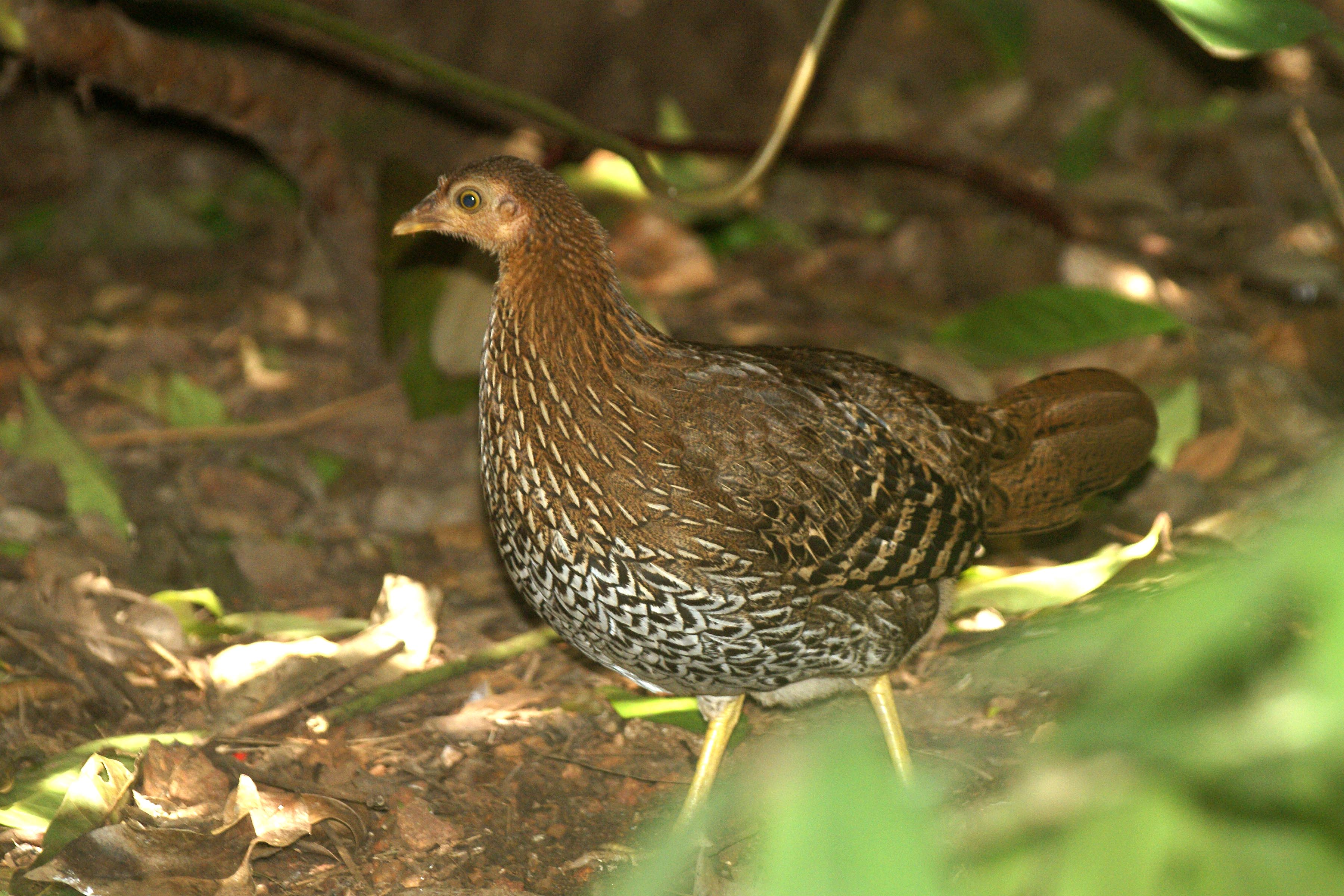 Female Sri Lanka Junglefowl Gallus lafayetii, National Zoological Gardens, Sri Lanka